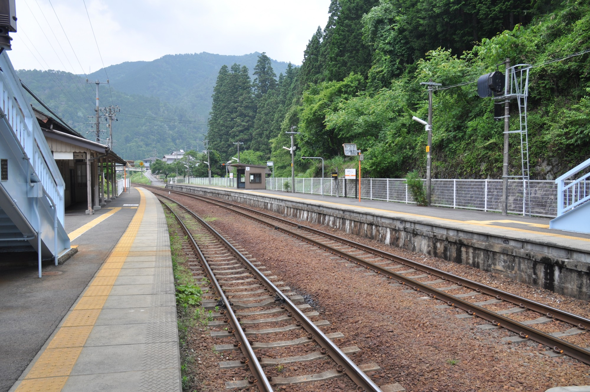 Yakeishi Station on the JR Central Takayama Main Line